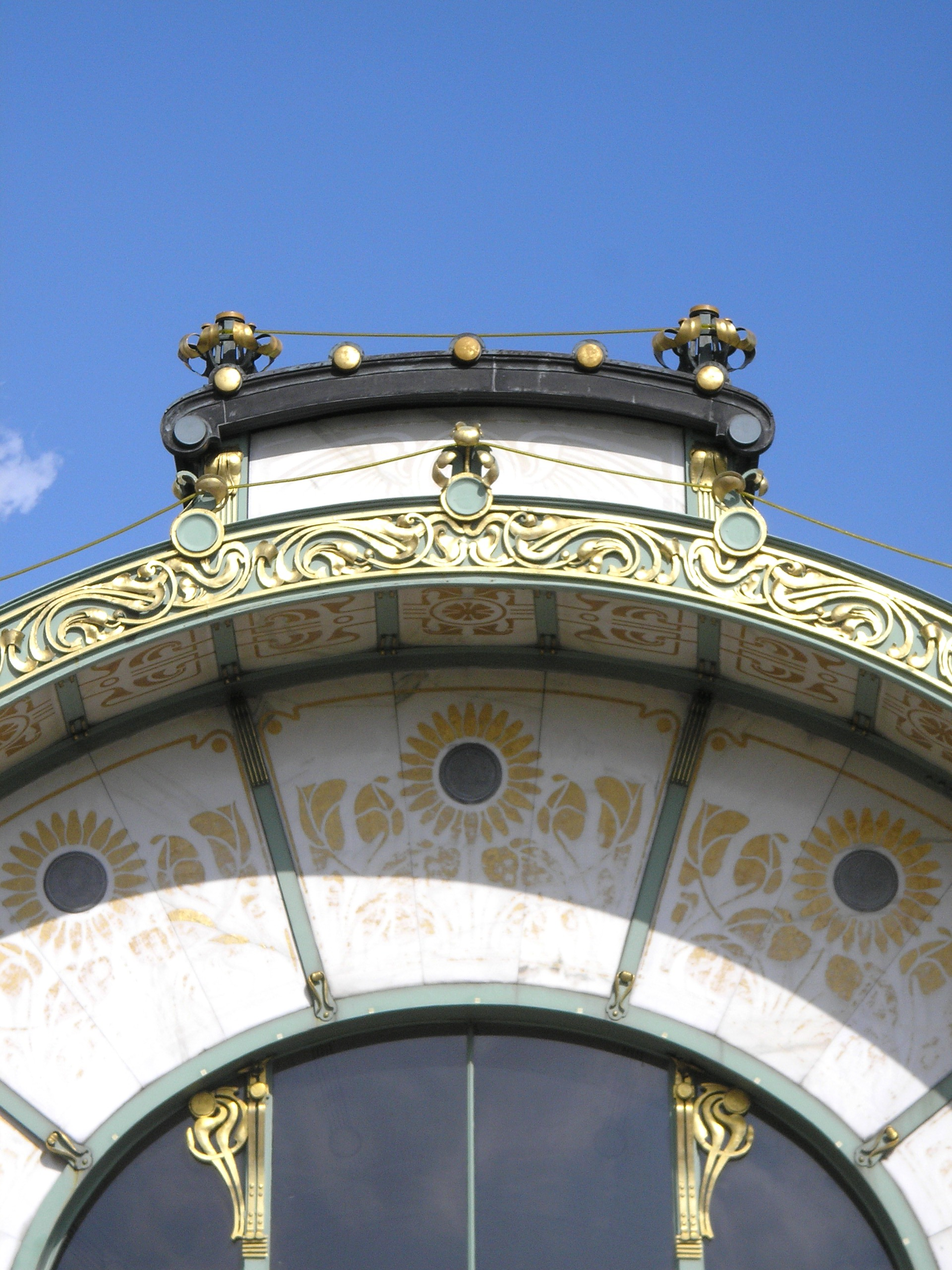 Karlsplatz Stadtbahn station (today U-Bahn in Vienna, constructed by Otto Wagner in the Jugendstil.